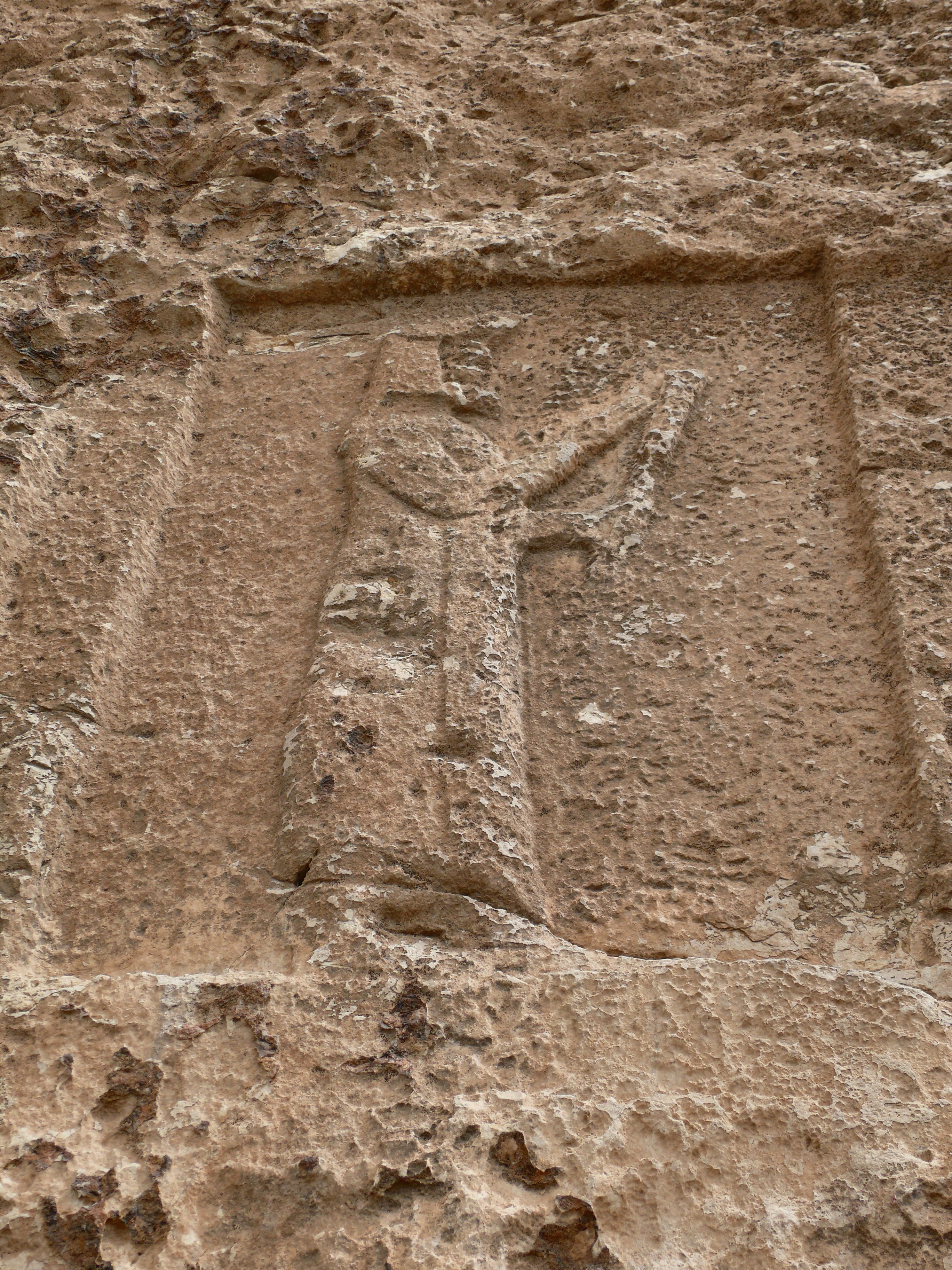 Detail of the Rock-cut Relief of Dukkan-e Davood (the shop of David) at sarpol-e Zohab, is one of the few late achemenian era rock-cut relief in Iran. The relief shows probably a magian or a nobleman holding a barsom (set of tied sticks symbolyzing the power). The character wears a tpicaly median hat, and a dress corresponding to the achaemenian fashion. It is unclear wether it was carved during the achaemenian era, or further during the Seleucid era or even the parthian. Opposed to the royal achaementian art of rock relief (see Naqs-e Rostam) the execution is clearly one of a provincial artist: the relief is not carved deep in volume, and the style is not mature. The relief lay under a quadrangular window opening a rock-cut tomb, probably for a local noble. It stands above the ground by 12 meters high. The place is still worshipped as locals believe it is a representation of king David. Many people are constantly praying there, explaining the good state of conservation (no vandalism) and the green flags one can see there. Other late achaemenian reliefs are: Ravansar & Sakavand (province of Kermanshah), Qizkapan (Iraki Kurdestan) Gardanah Gavlimash (Fars), and Kapan (Fars) Taken in Sarpol-e Zohab, province of Kermanshah, Iran, May 2009.